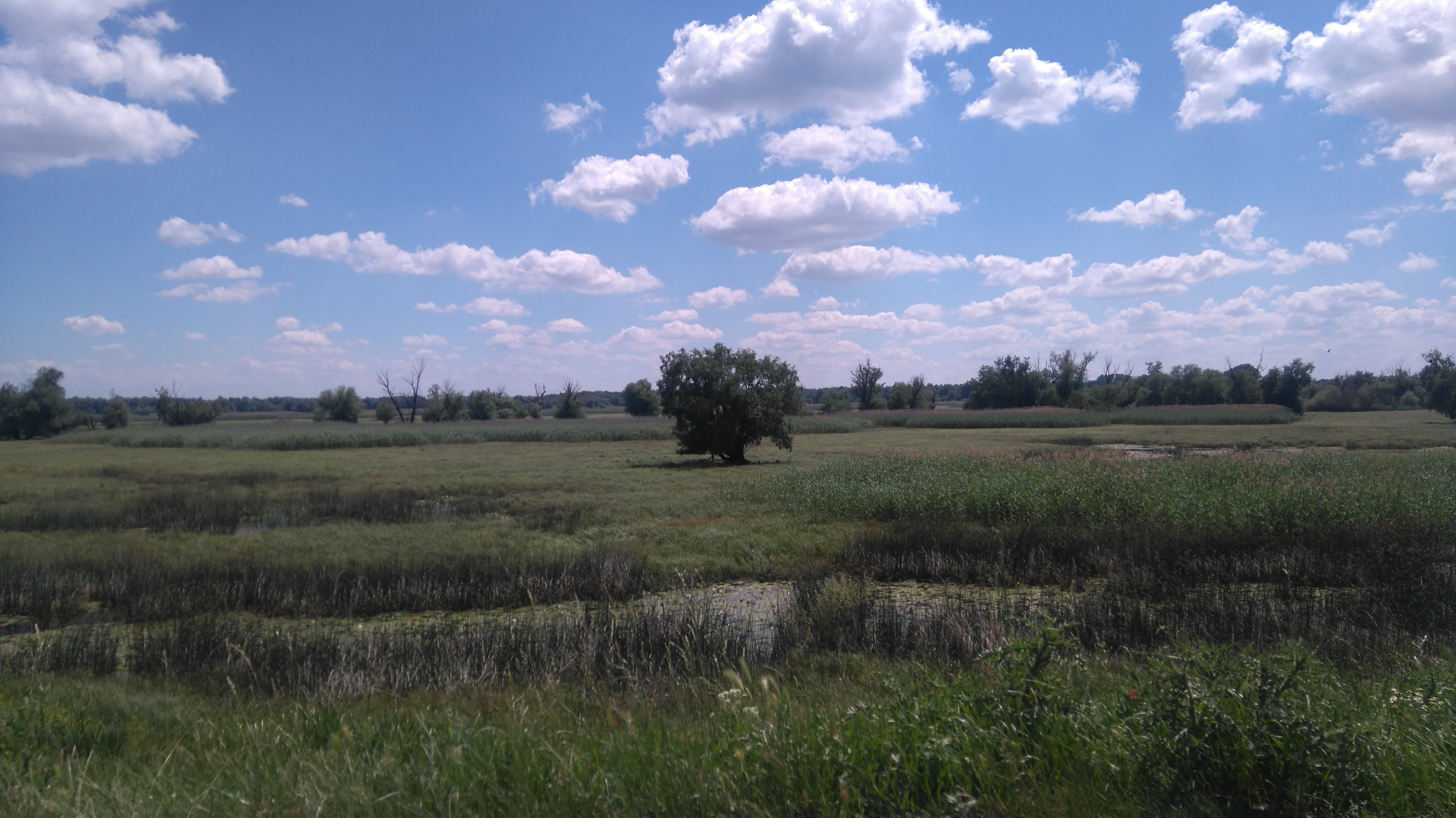 Kopačevo marsh